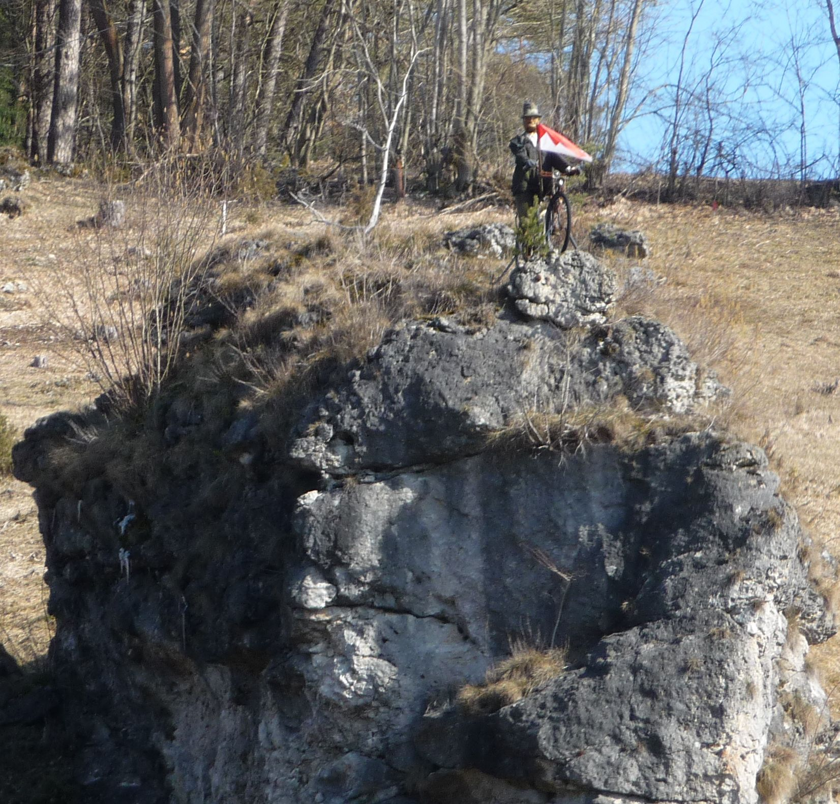 Kleinziegenfeld